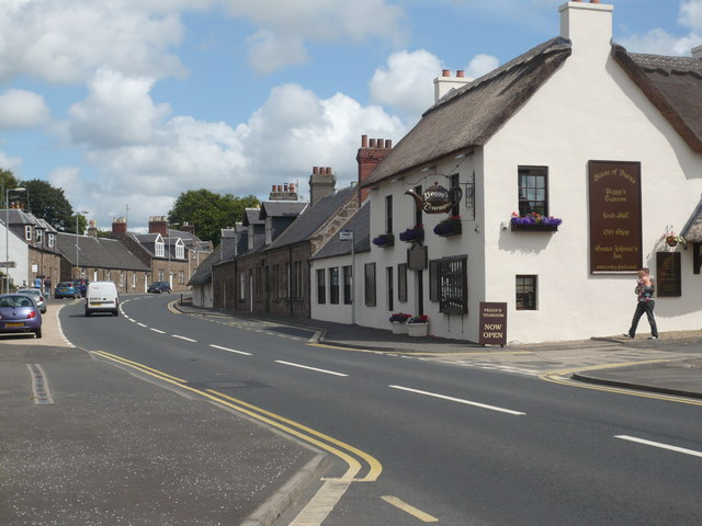 Peggy's Tearoom and Main Street, Kirkoswald On the same side of the road as the tearoom is Souter Johnnie's cottage - the small thatched building on the bend in the road.